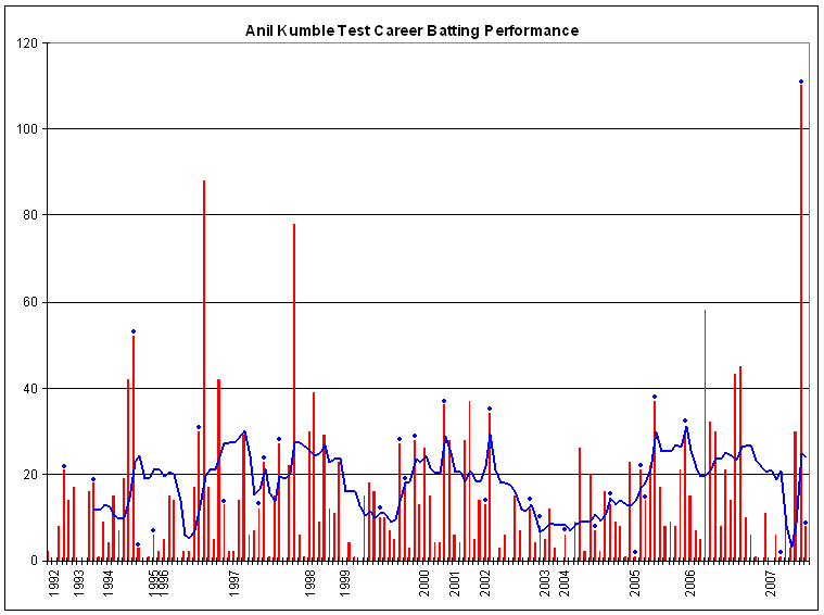 Test batting chart of Anil Kumble. Red columns are the runs in the innings. Blue dots indicate not outs. Blue line is average in the last ten innings. Thanks to Raven4x4x for providing the template.